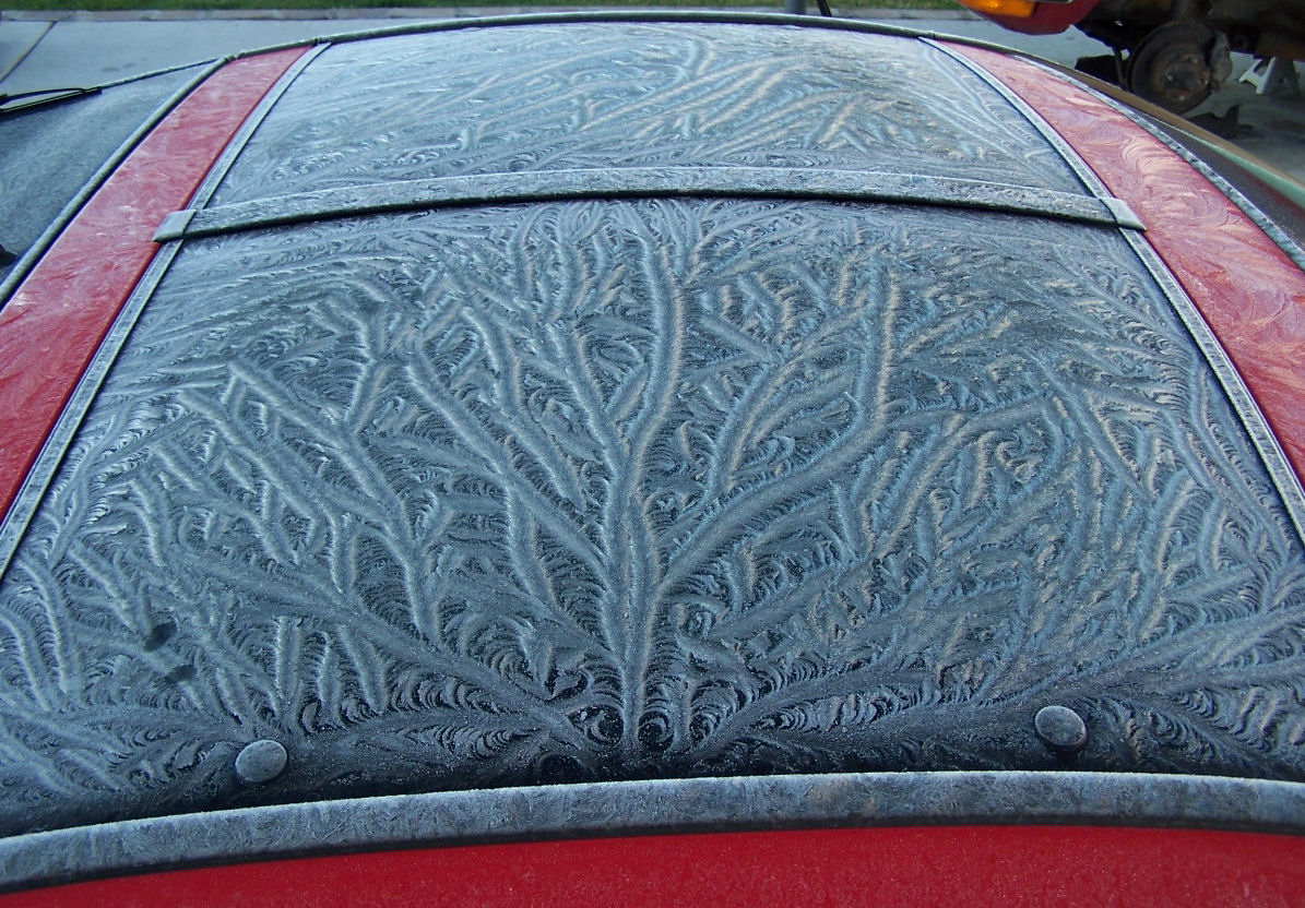 Window frost observed from my car on April 09, 2007